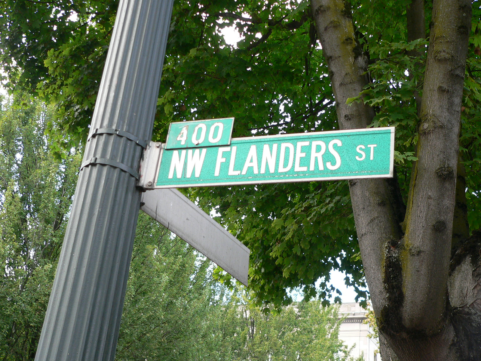 Street sign for NW Flanders Street in Portland, Oregon. Namesake of Ned Flanders from The Simpsons.